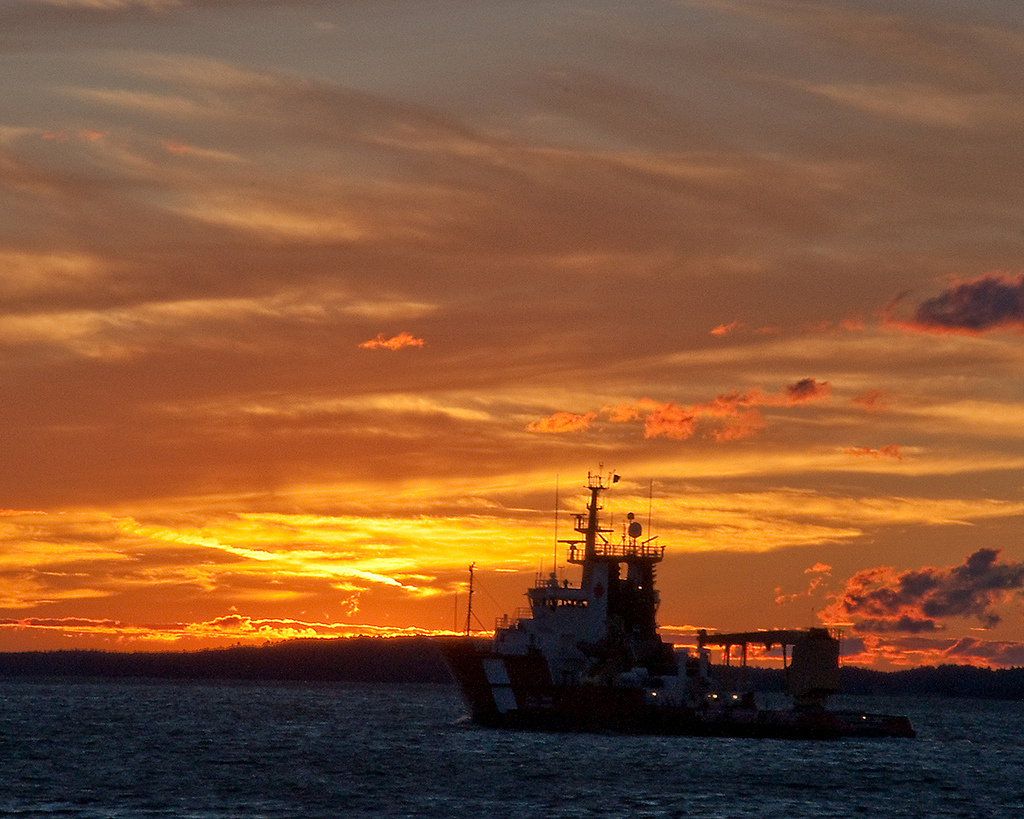 Canadian Coast Guard ship leaves from Parry Sound Ontario Canada.